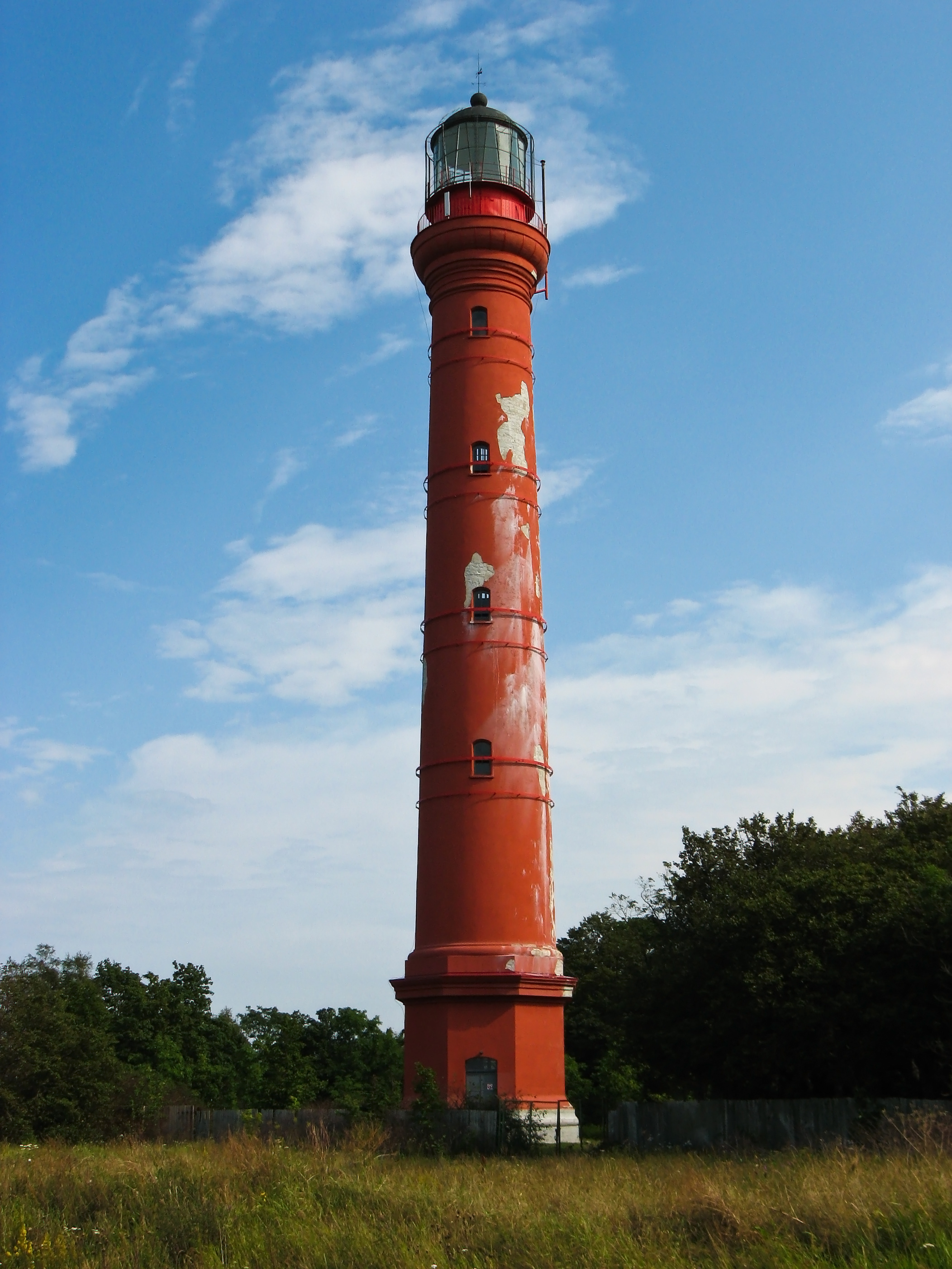 A red lighthouse in Paldiski, Estonia.